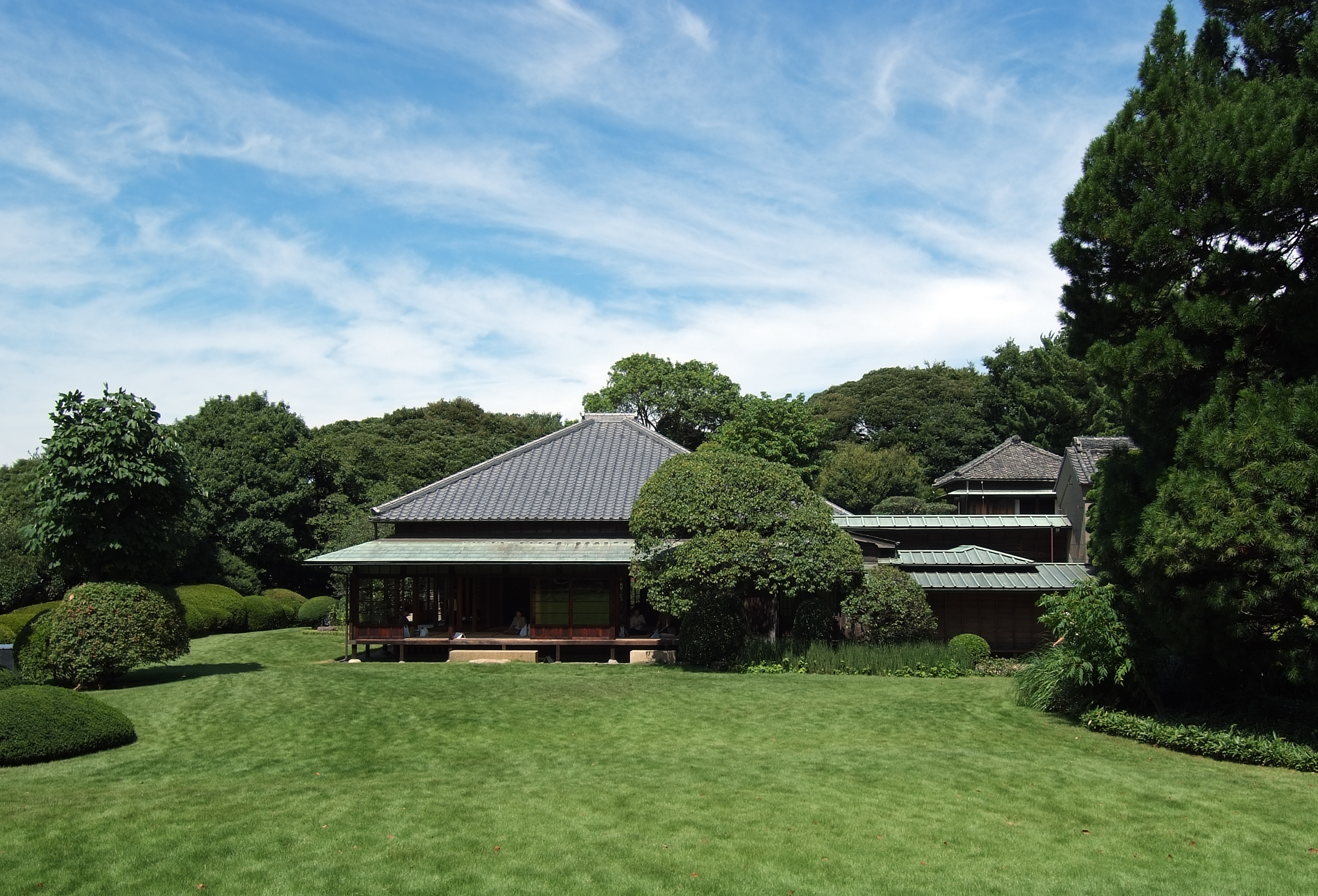 Tojo-tei, at Matsudo Chiba Japan,built in 1884.